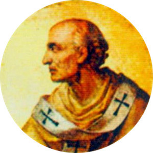 Portait of Pope Benedict XI in the Basilica of Saint Paul Outside the Walls, Rome